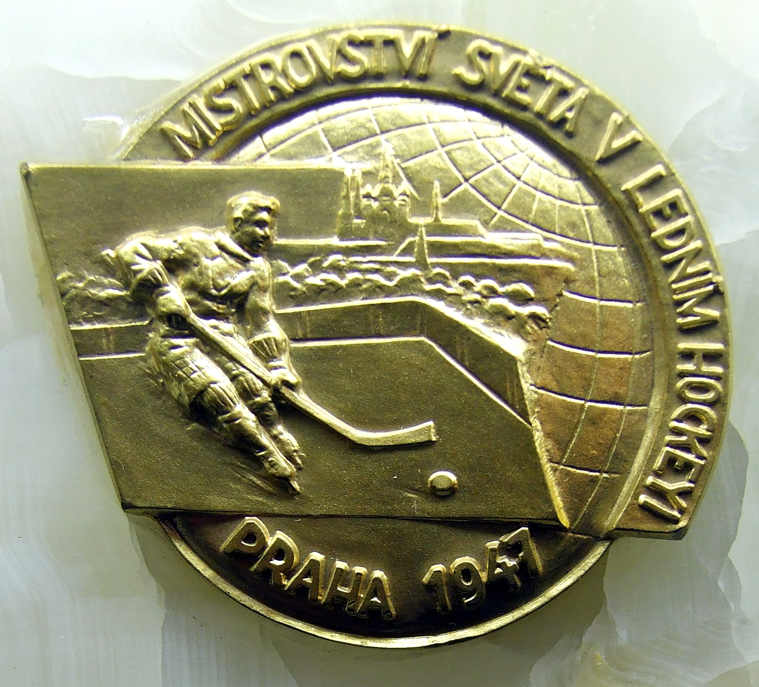 The World Championship in ice hockey held in Prague in 1947 - One Century Of Czech Ice Hockey Exhibition, National Museum in Prague: [1]